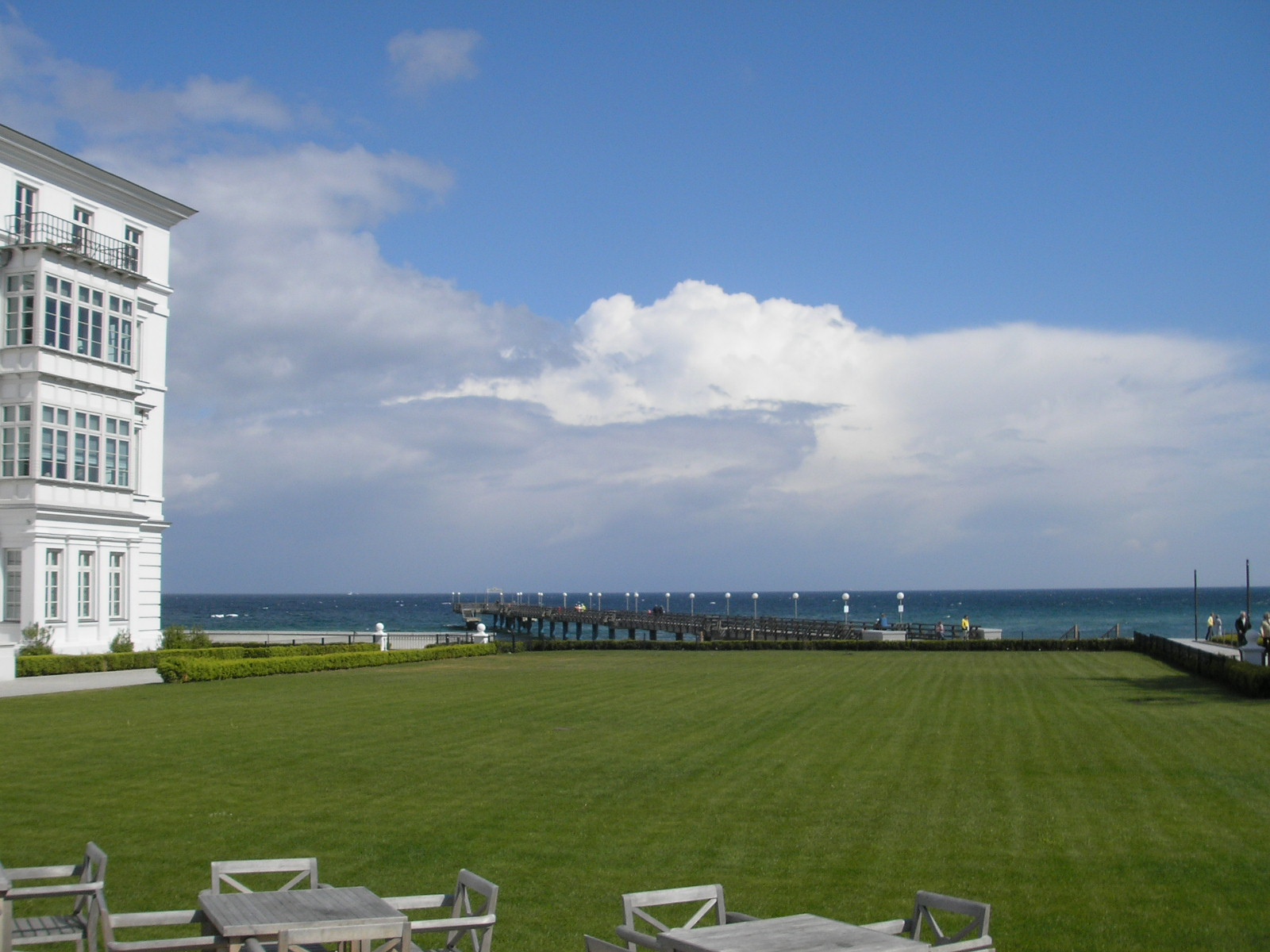 View of the Baltic Sea from Heiligendamm.